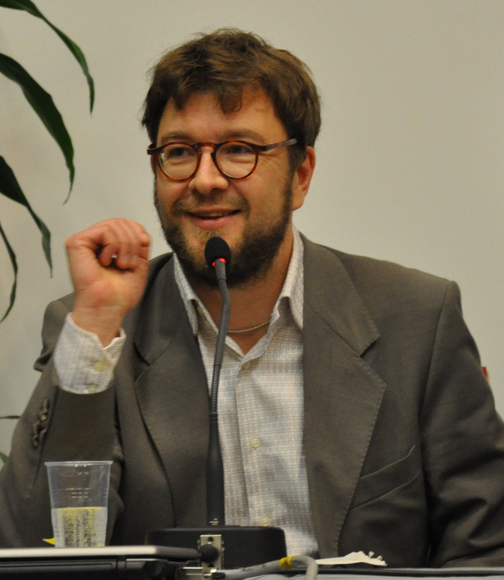 Finnish journalist Timo Harakka at the Turku Book Fair 2009.